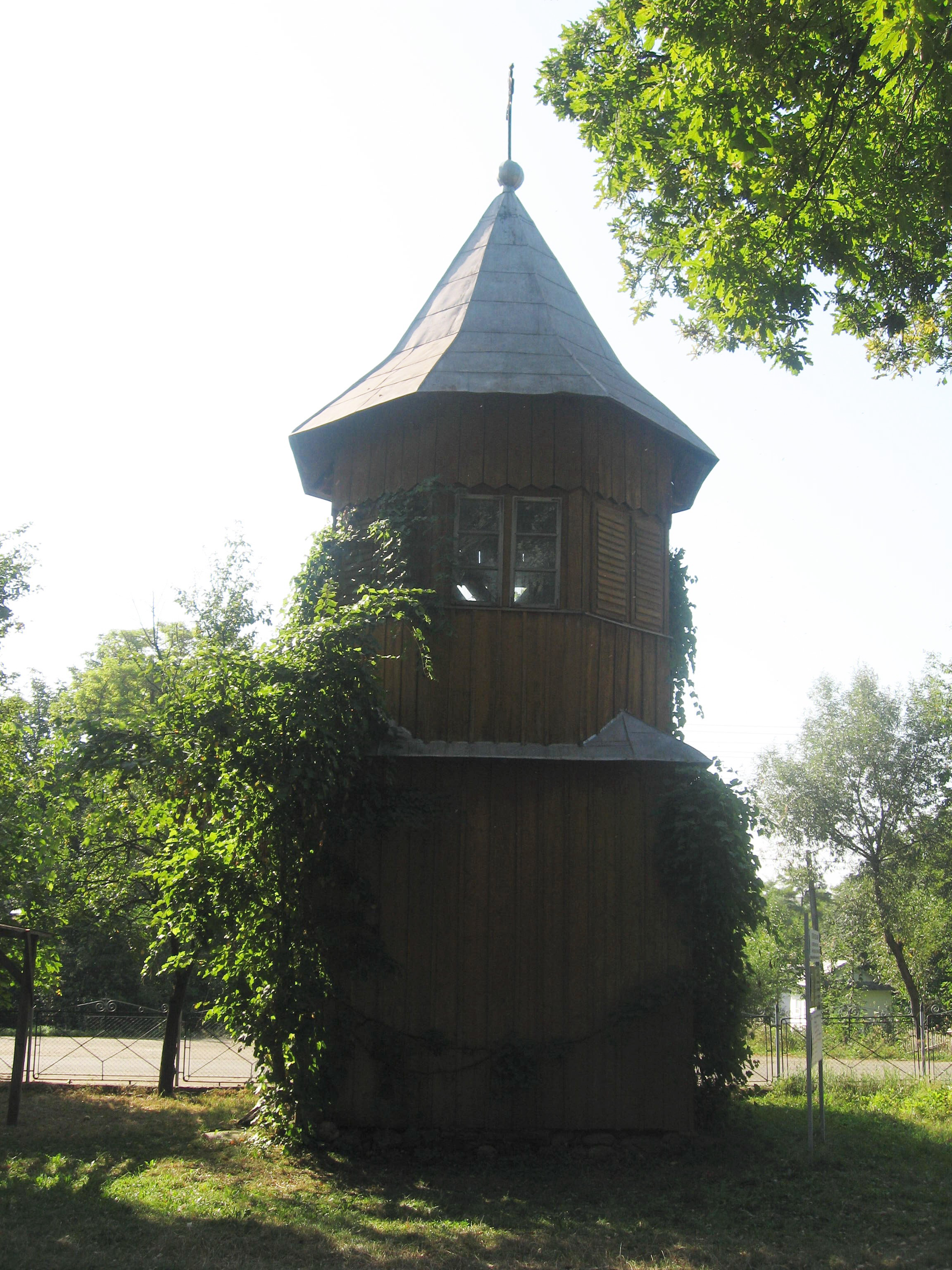 Biserica Tăierea Capului Sfântului Ioan Botezătorul din Reuseni 02